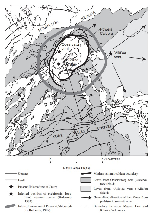 Map of the Kïlauea summit area showing probable locations of prehistoric vents, calderas and flows.